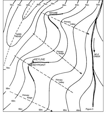 Contour map from P.A. Yeomans’ UN Habitat Speech (1976), p. 9 used with permission